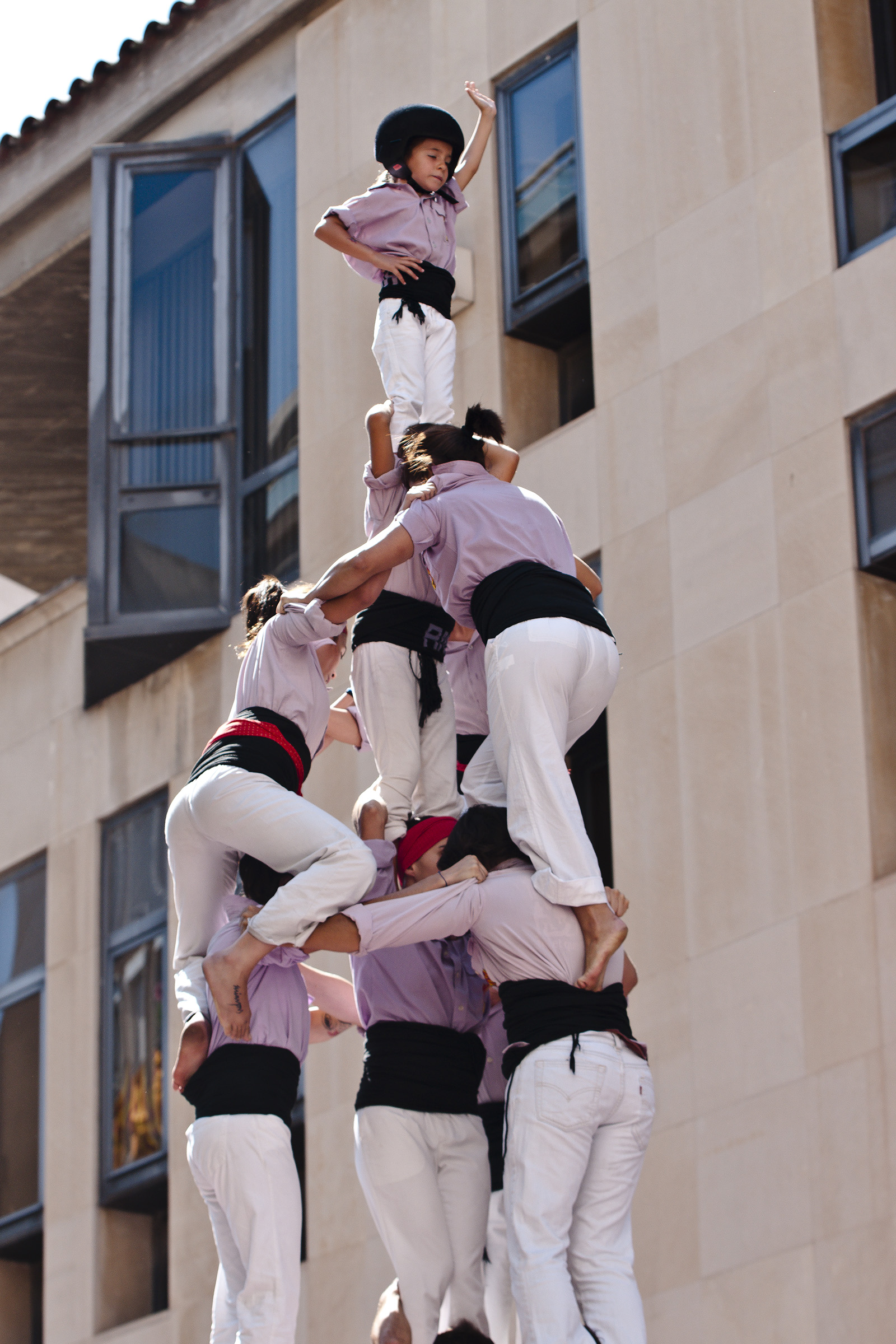 Human tower called "Tres de vuit amb l'agulla". Done by "Minyons de Terrassa" during 2010.